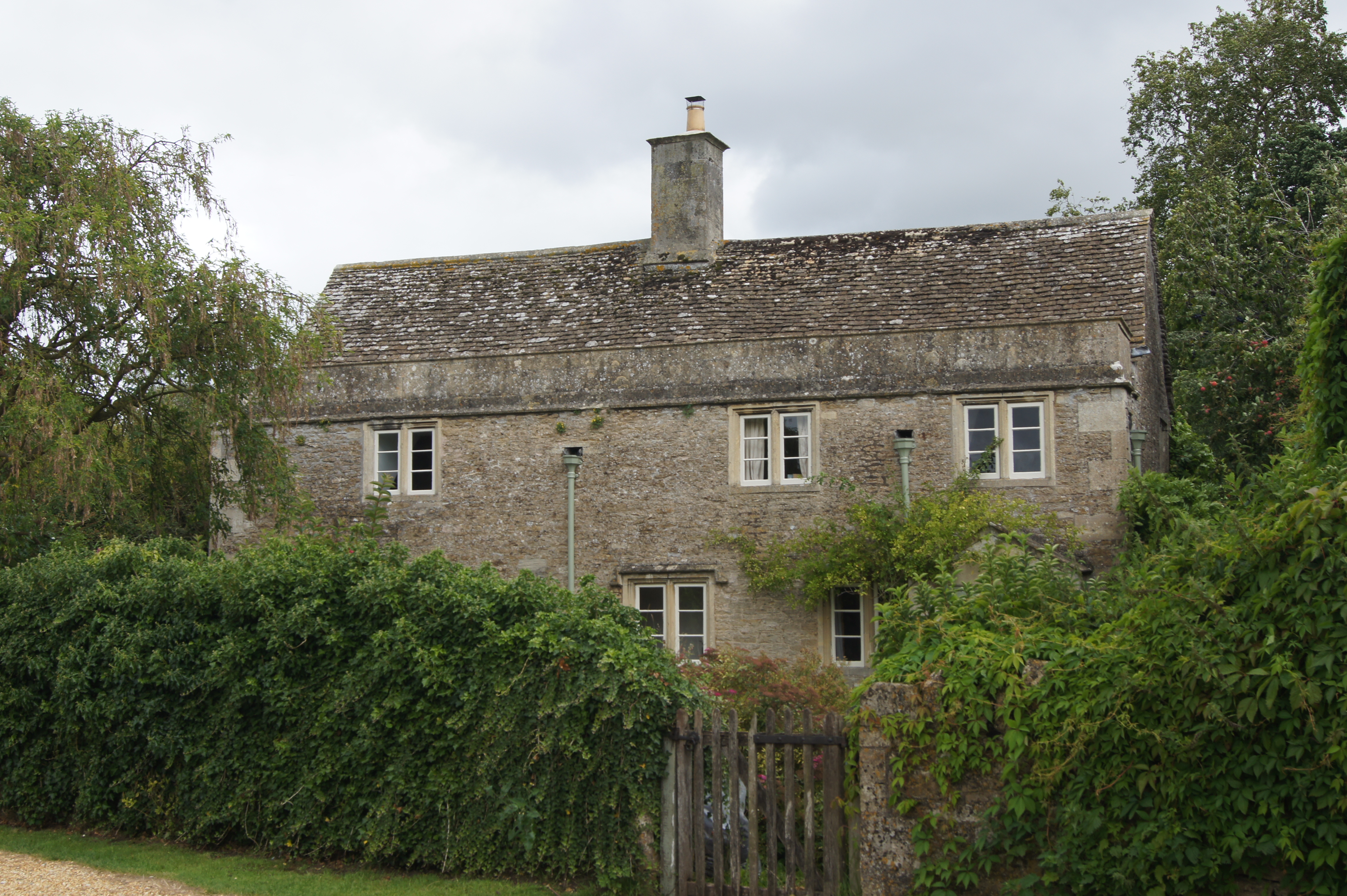 The house used as Harry Potter's, in Lacock, England.